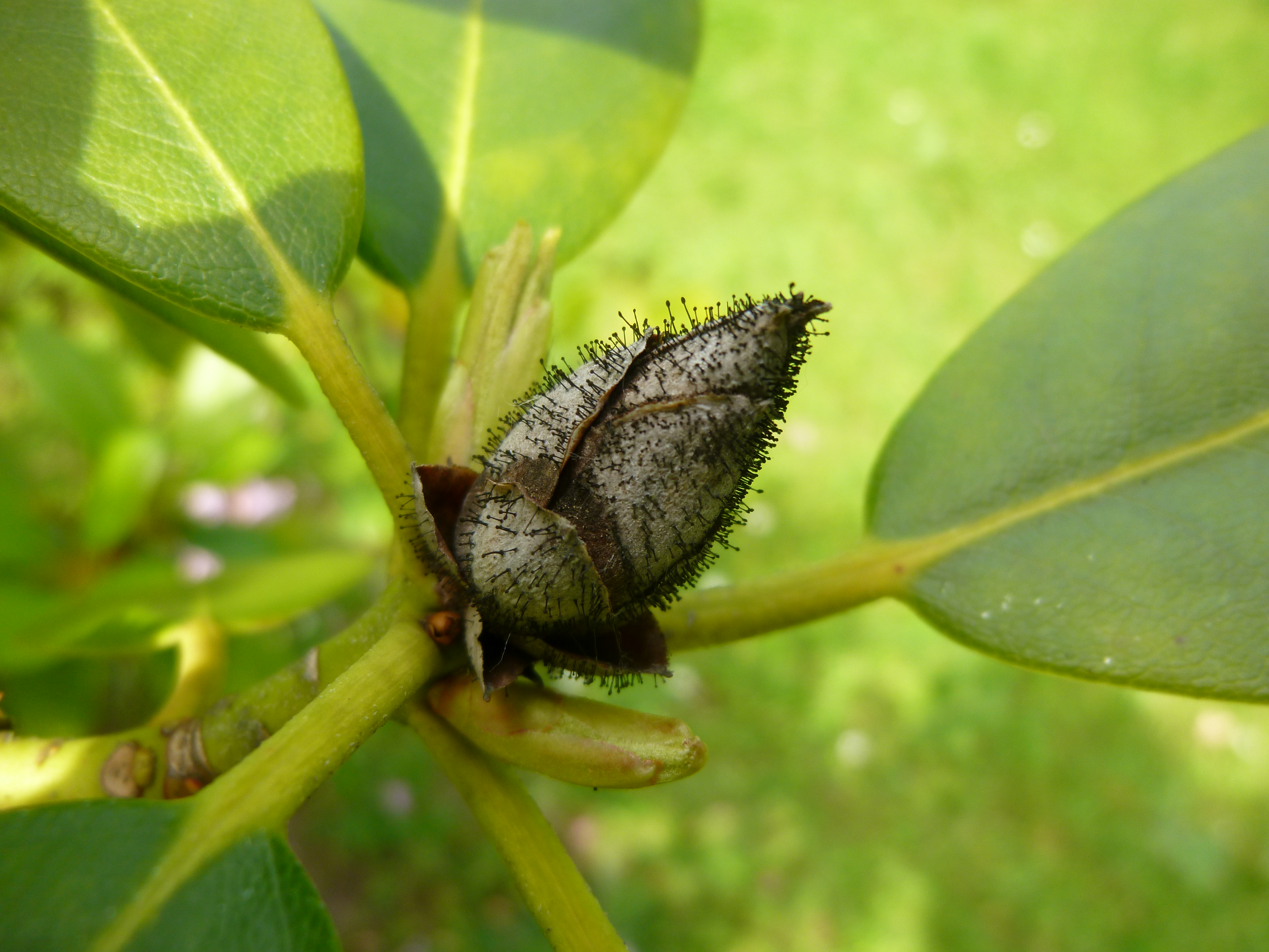 bud blight on rhododendron